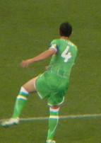 Antar Yahia England vs Algeria 2010 FIFA World Cup